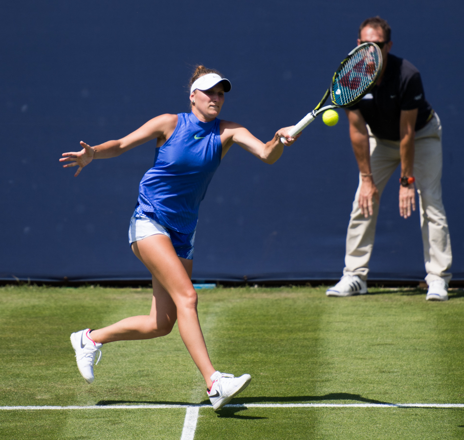 Markéta Vondroušová at the 2017 AEGON Classic